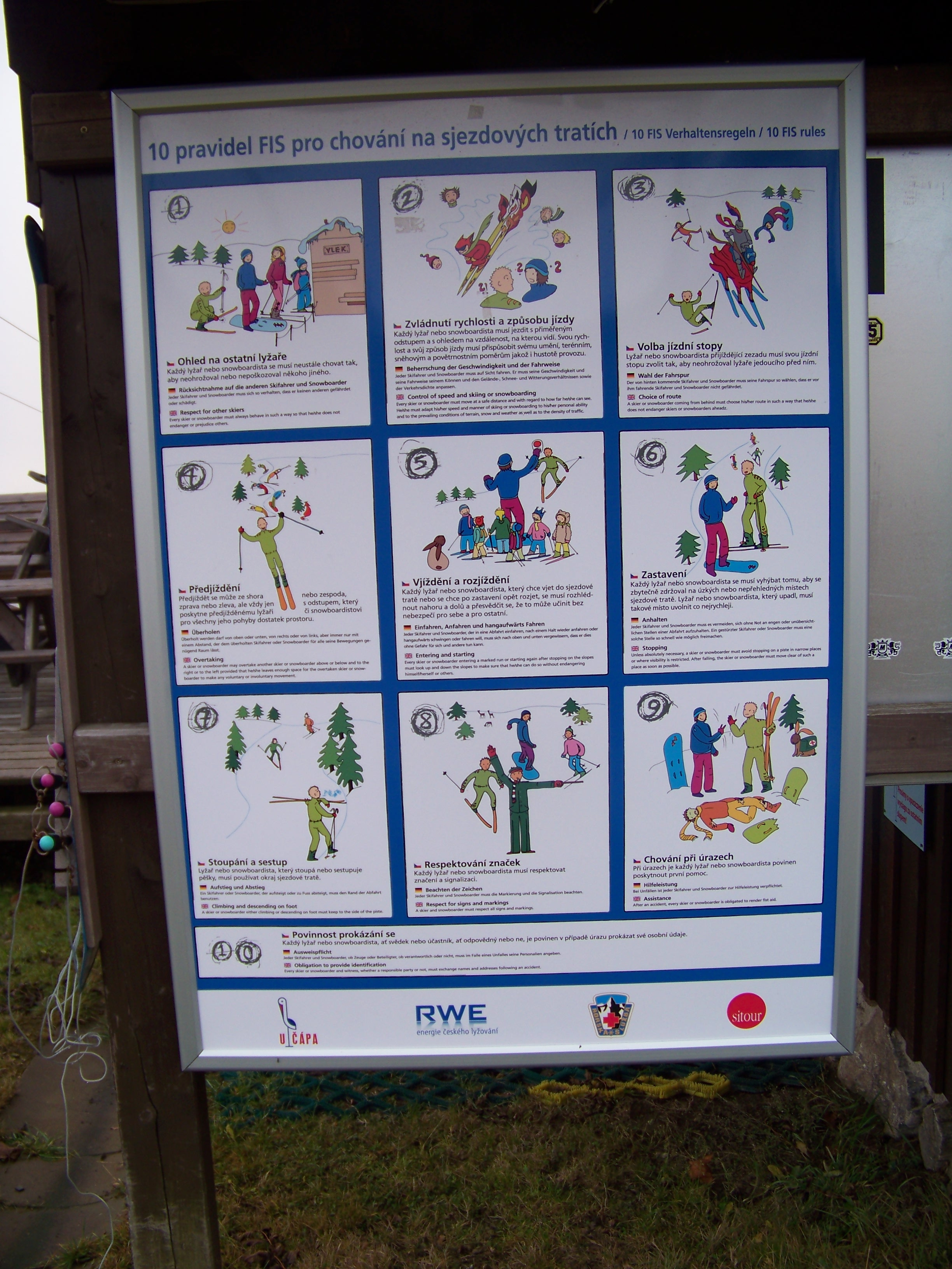 Kořenov-Příchovice, Jablonec nad Nisou District, Liberec Region, the Czech Republic. Skiing infoboard. - OpenStreetMap (Info)